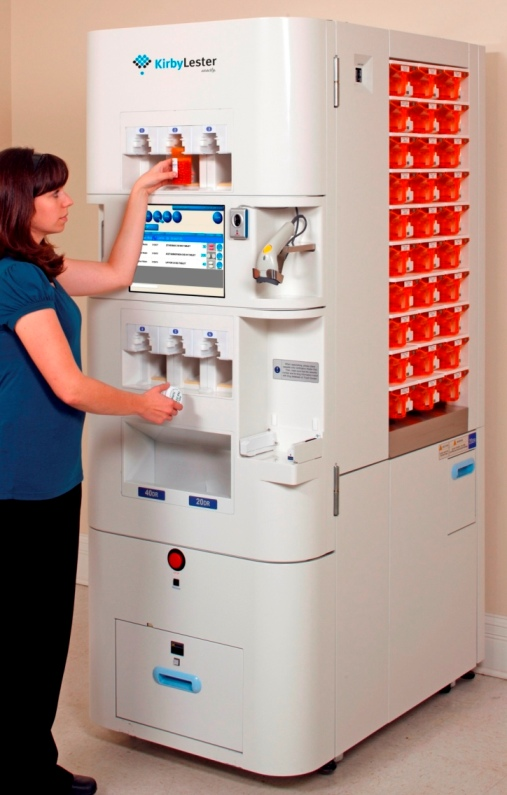 Kirby Lester KL60 fully-automated dispensing system